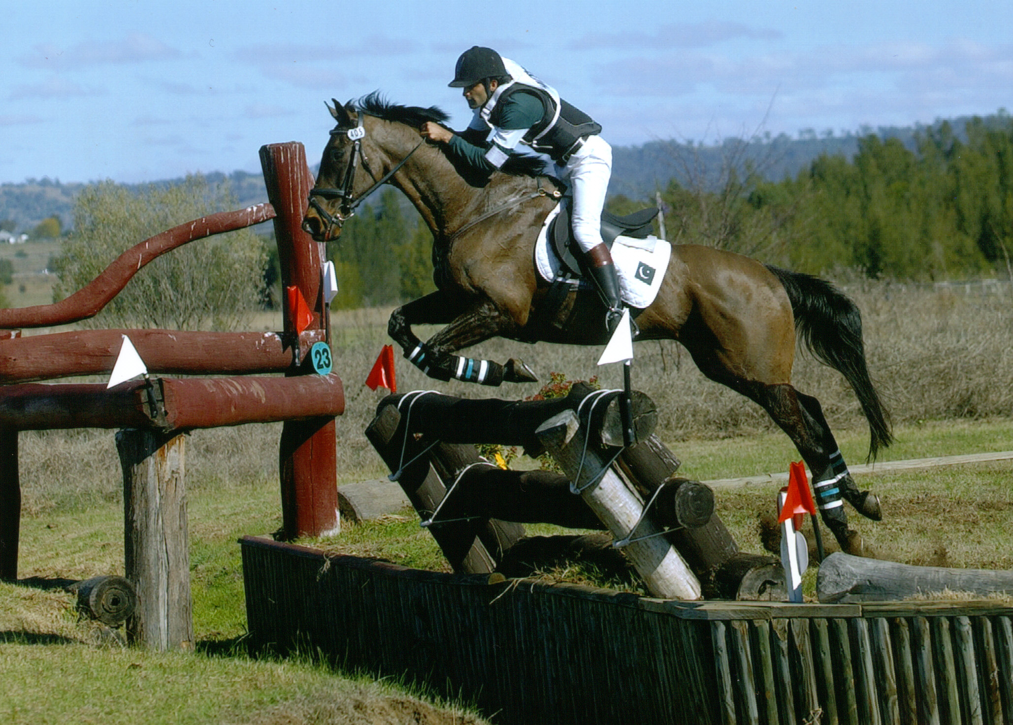 Camden Horse Trials, NSW 2006